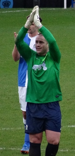 Paul Robinson and Grant Hanley